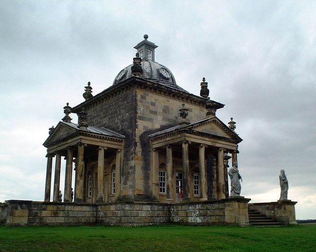 Castle Howard